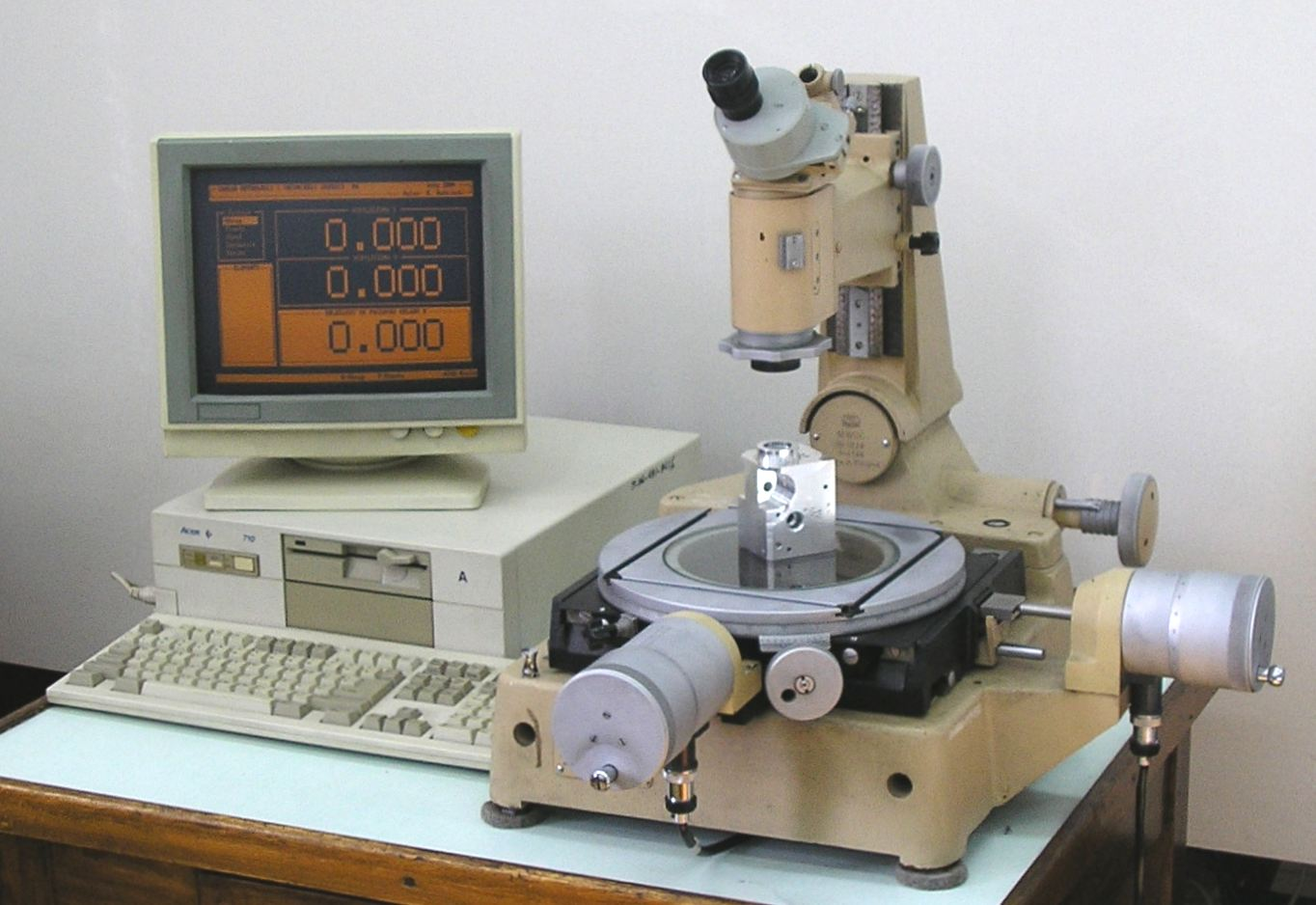 Measuring microskope with encoders and computer made in Poland by PZO circa 1976